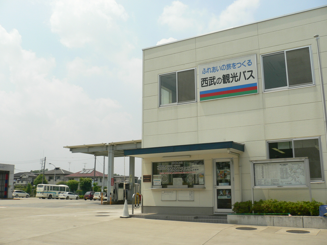 }Seibu Bus Sayama office(西武バス狭山営業所) in Sayama C, Saitama P.